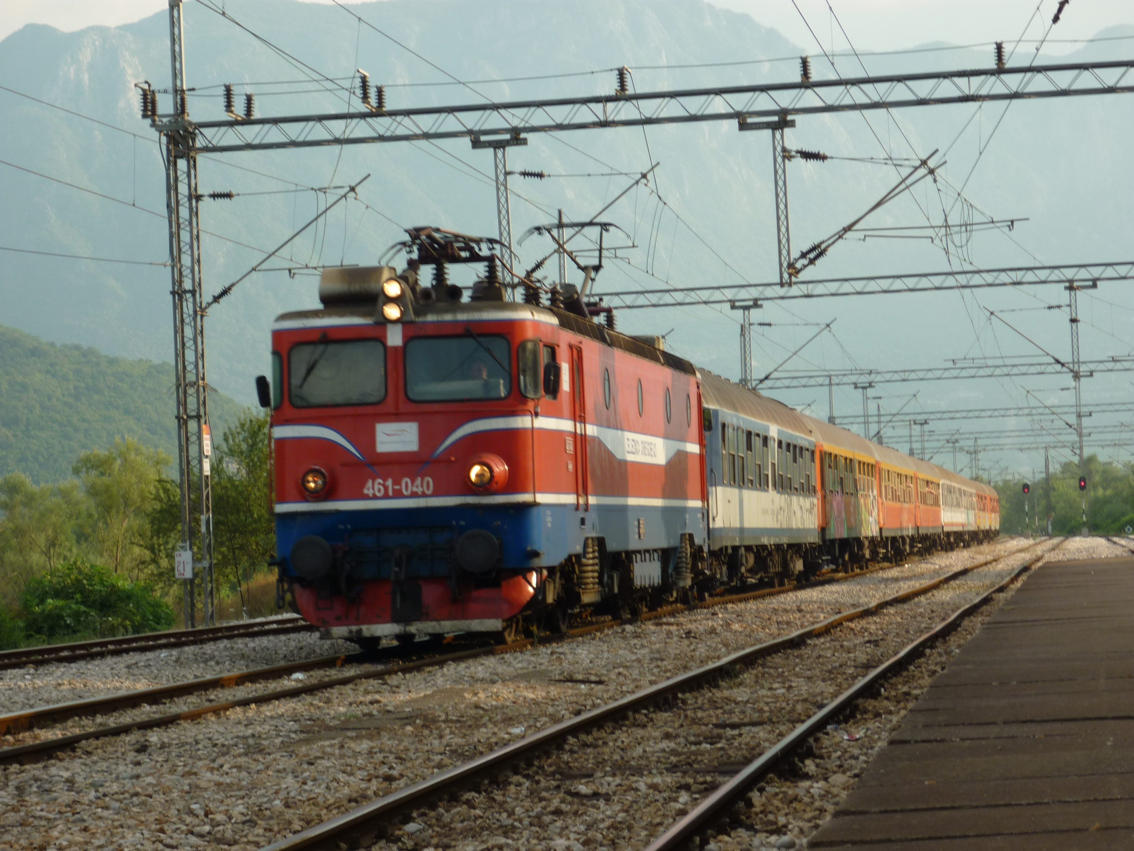 International nighttrain on the Belgrade-Bar-Line at Virpazar station in Montenegro with former JŽ class 461 locomotive from ŽCG.